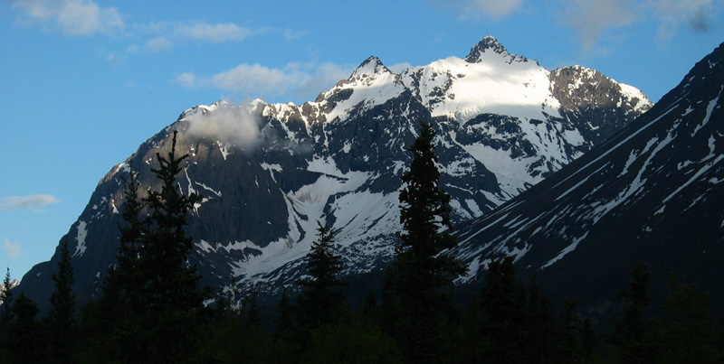 Polar Bear Peak Alaska, photo by Paxson Woelber.